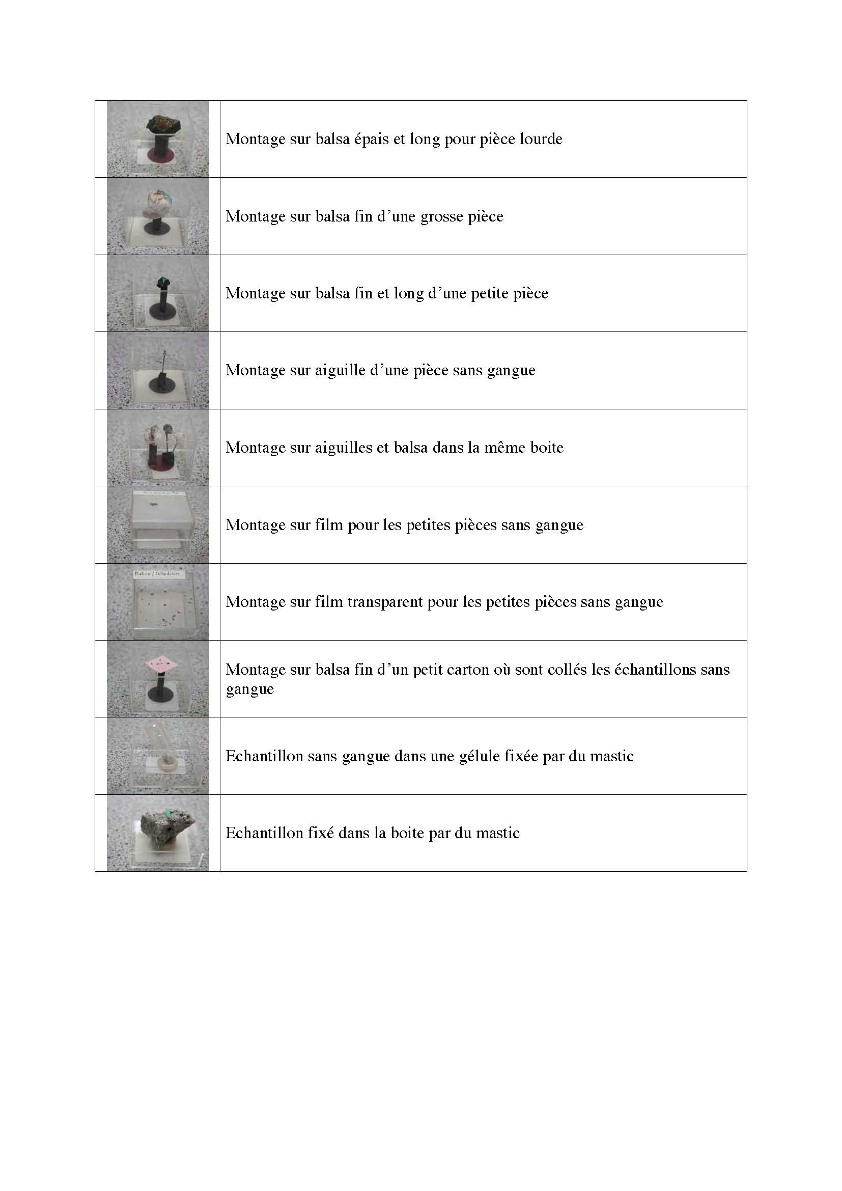 Different types on micromounting